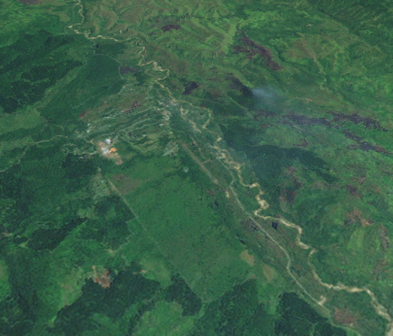 NASA World Wind image of Bulolo